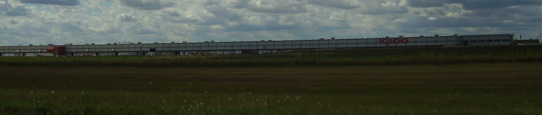 Main production facility of Igloo Corporation